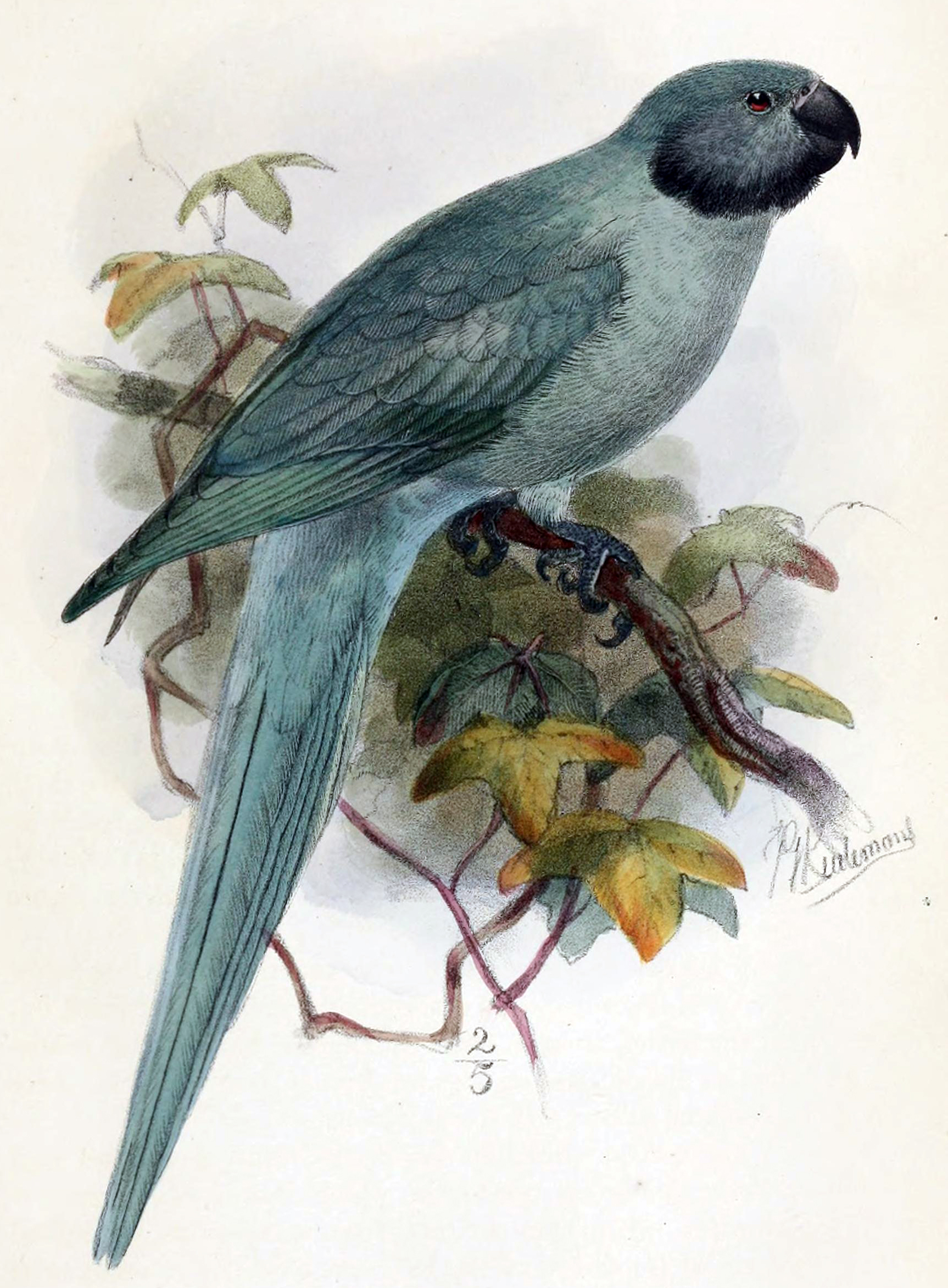 « Palaeornis exul » = Psittacula exsul (Newton's Parakeet), female holotype specimen.